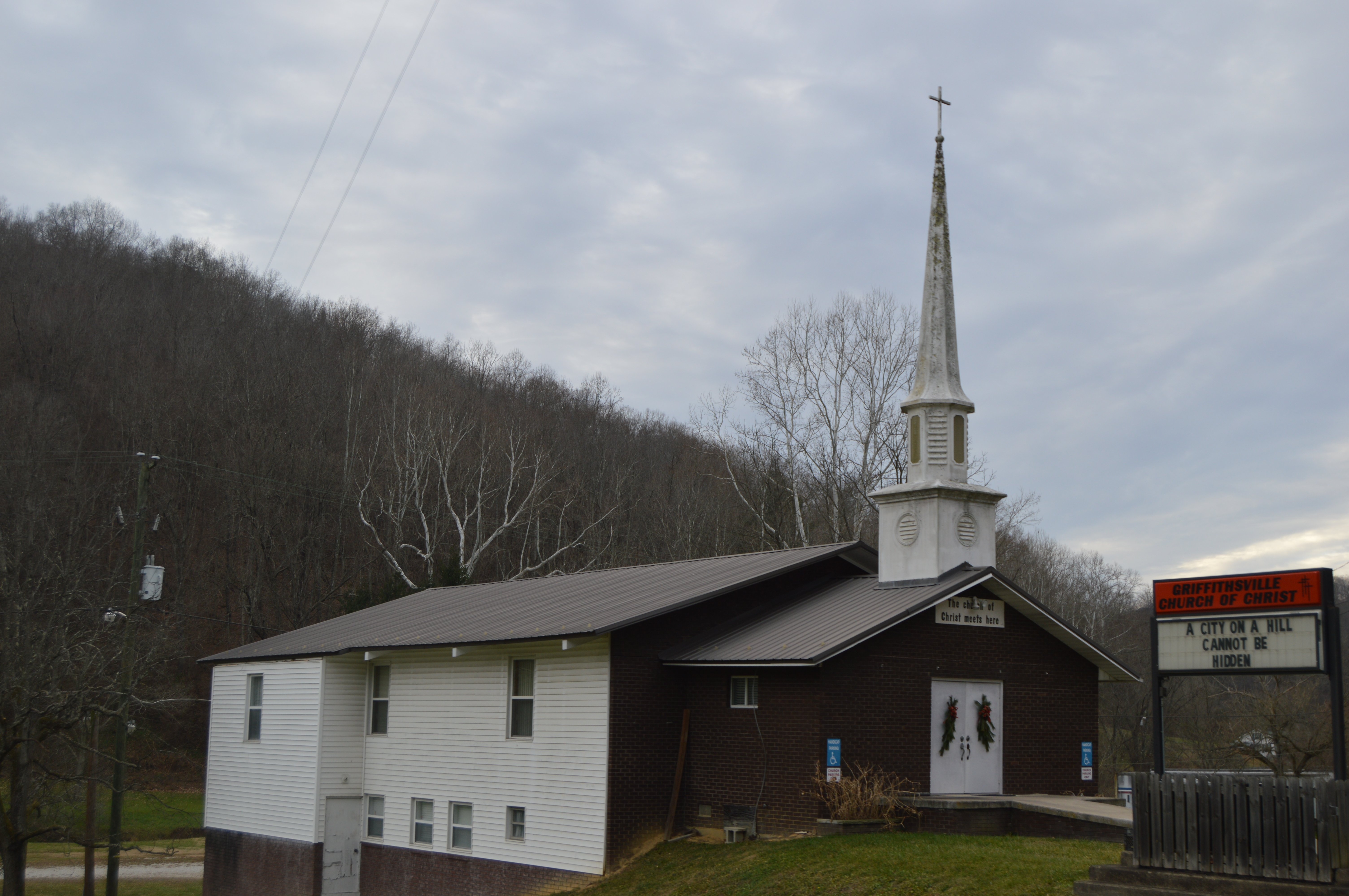 Southeastern side and front of the Griffithsville Church of Christ, located on West Virginia Route 3 at Griffithsville in Lincoln County, West Virginia, United States.